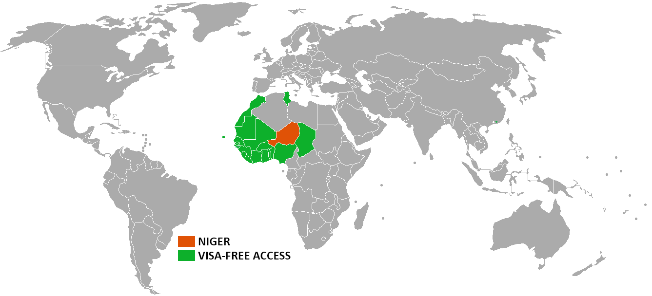 Visa policy of Niger Niger Visa exempt